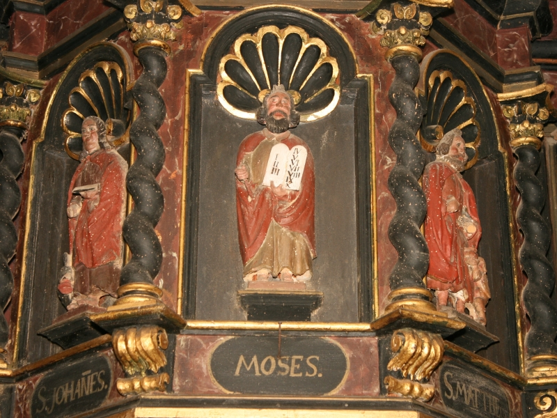 Moses and the apostle figure John and Matthew in the church of Pessin Brandenburg, Germany